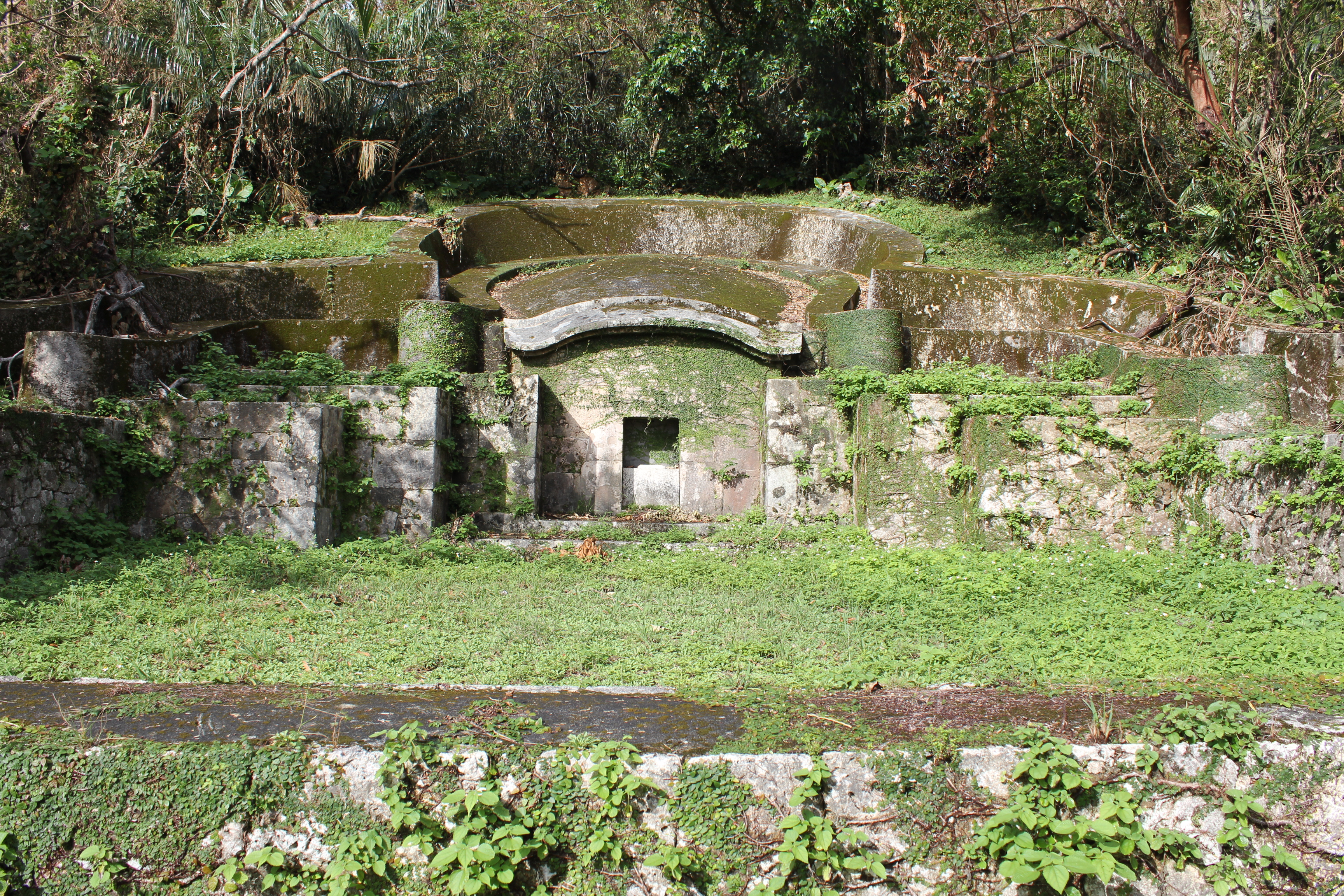 The Tomb of Ginowan Udun, Naha, Okinawa, Japan